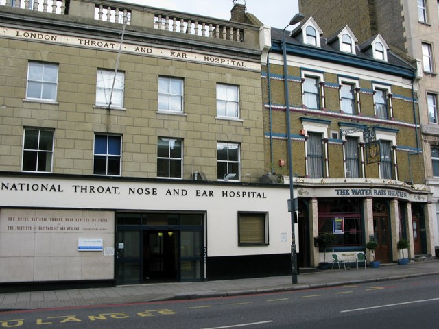 National Throat Nose and Ear Hospital London Showing location of the hospital, right next to the Water Rats Theatre bar in Gray's Inn Road, Bloomsbury, London. The hospital treats patients referred from all parts of the United Kingdom and abroad. The theatre is now a popular venue for live music.